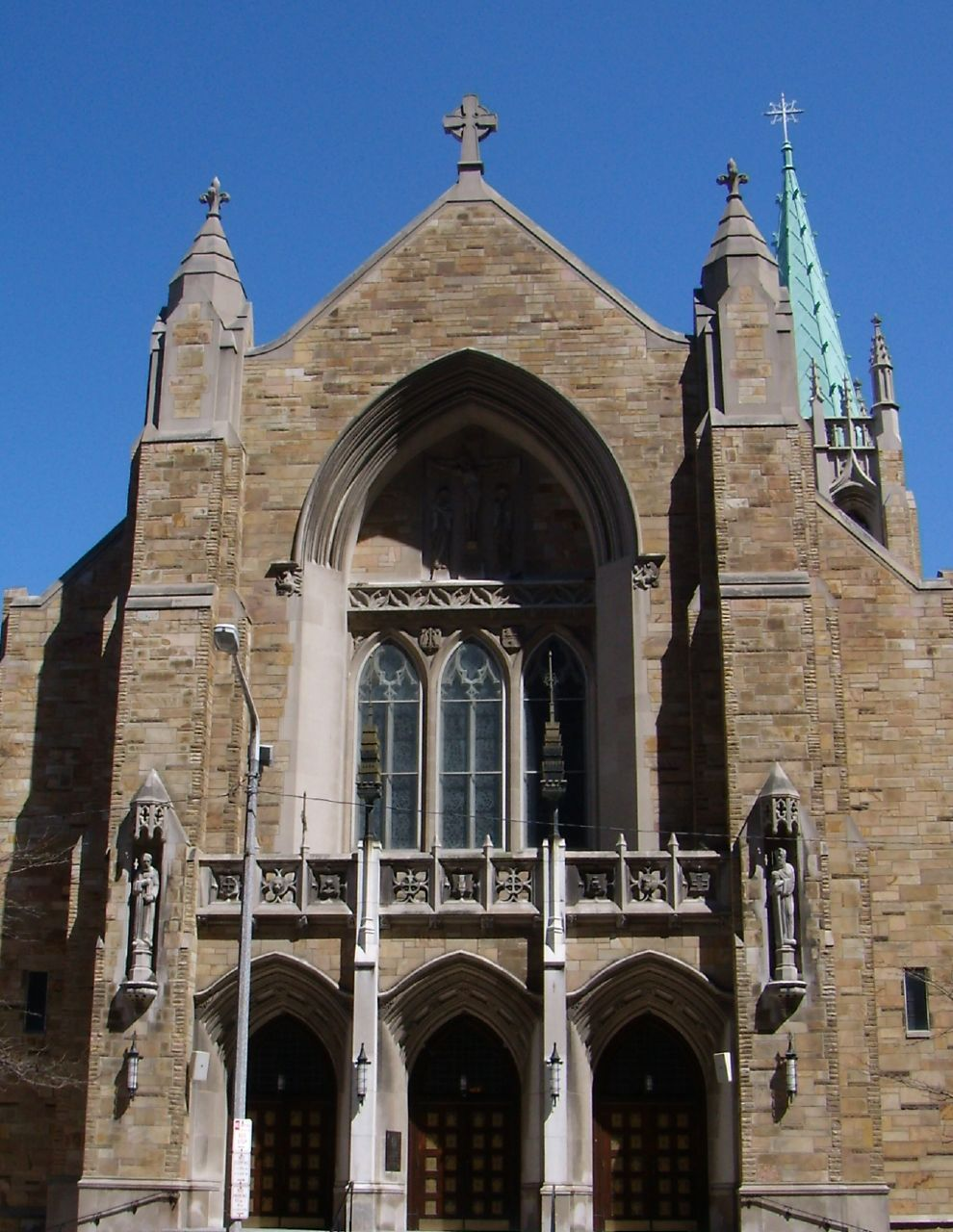 Roman Catholic Cathedral of Saint John the Evangelist in Cleveland, Ohio